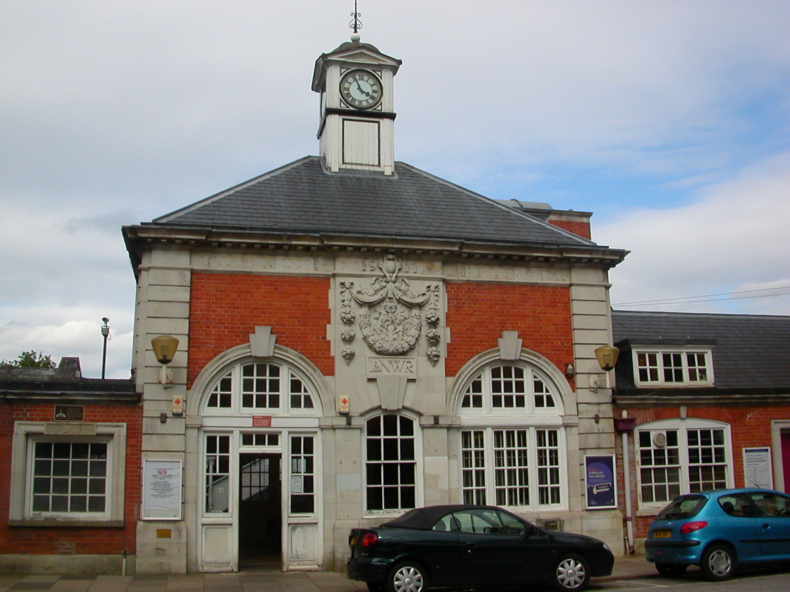 Main building at Hatch End railway station - built in 1911 by the London & North Western Railway (LNWR), and now listed. Photographed by me on 5th September 2006.